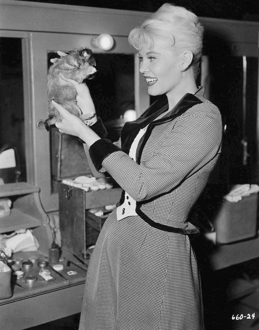 Photo of Dorothy Provine with her little long-haired chihuahua.